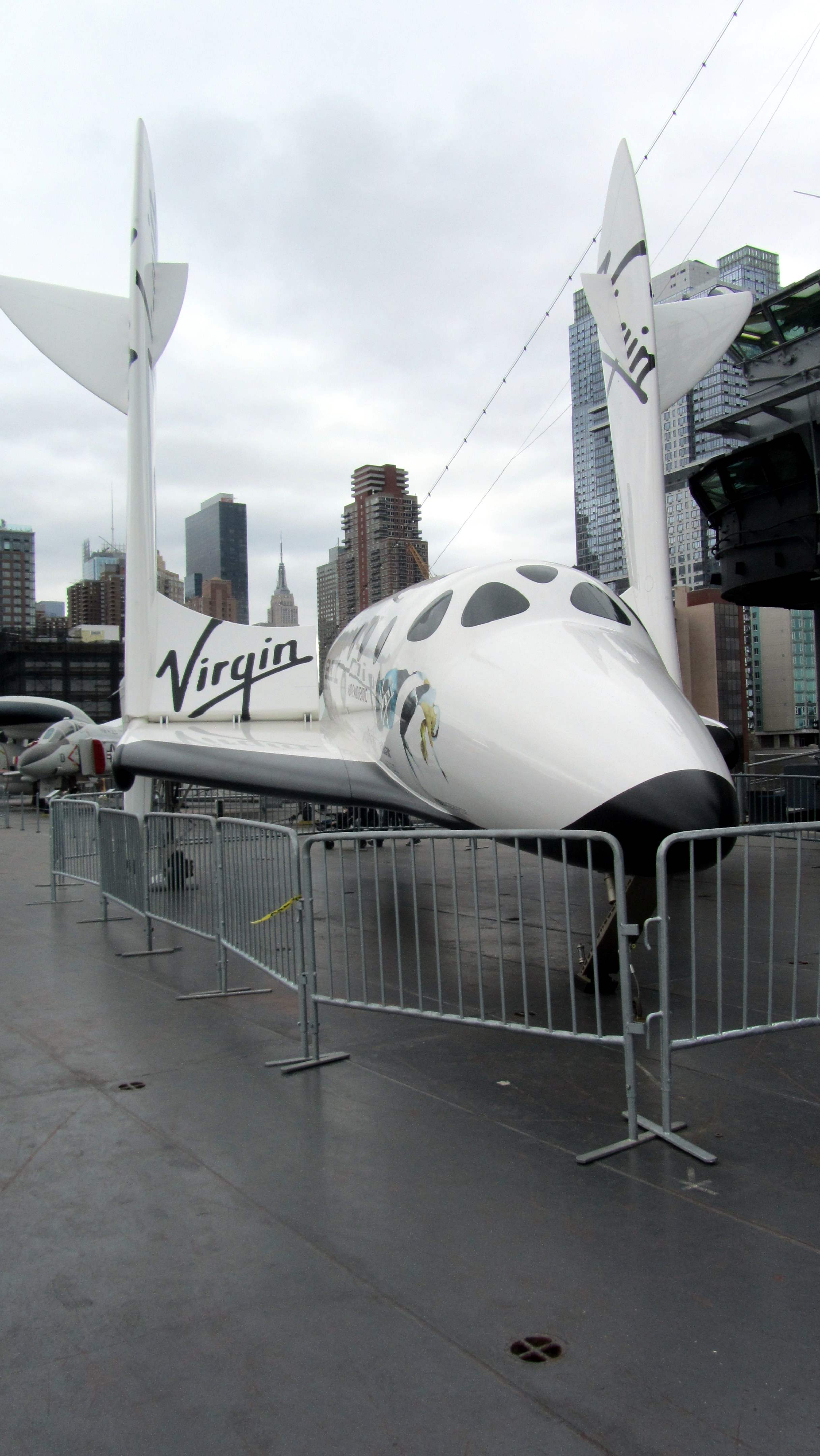 Replica of Virgin Galactic’s SpaceShipTwo at the Intrepid Museum